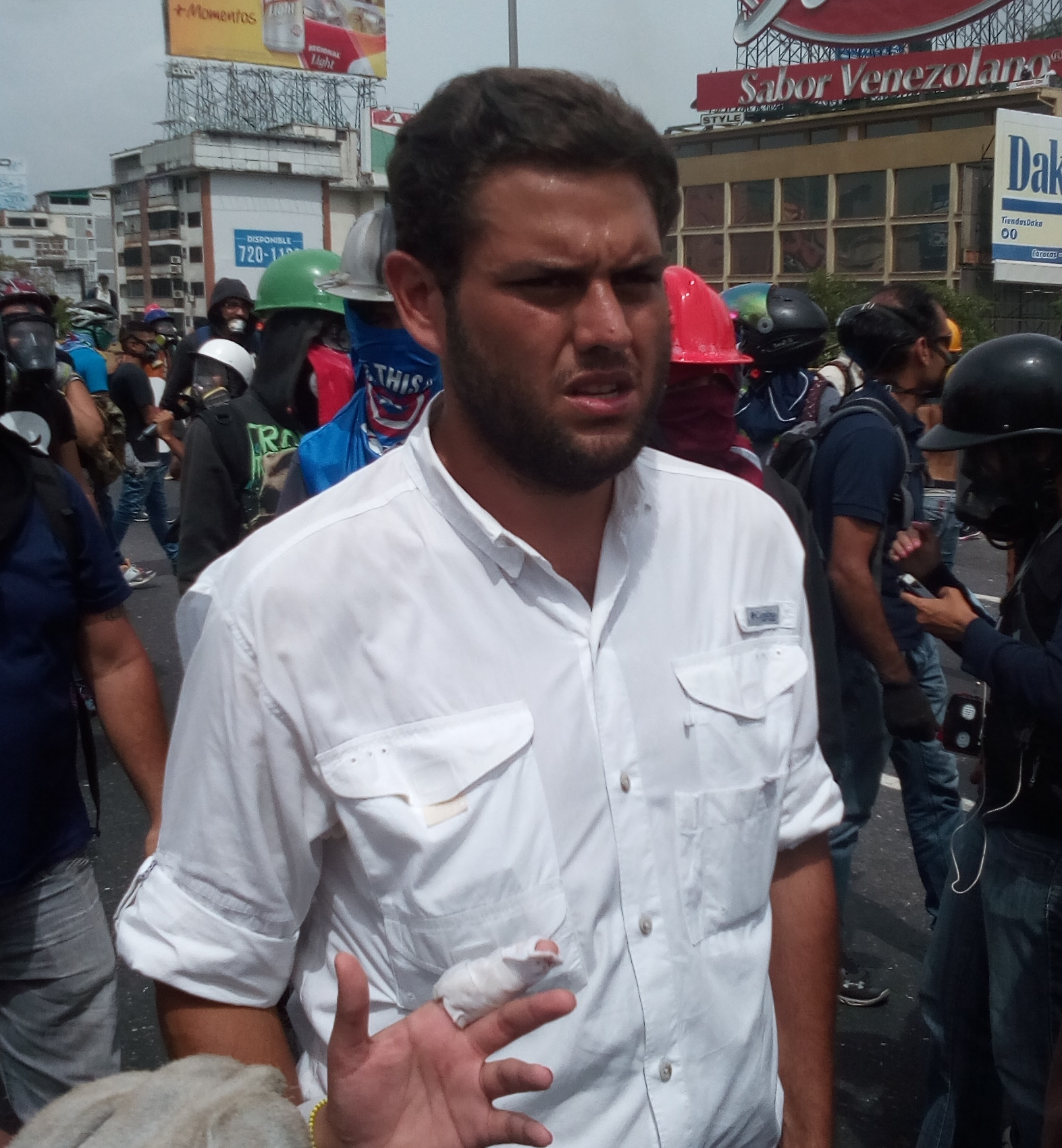 Juan Requesens durante la Marcha de la Salud en Venezuela en 2017.